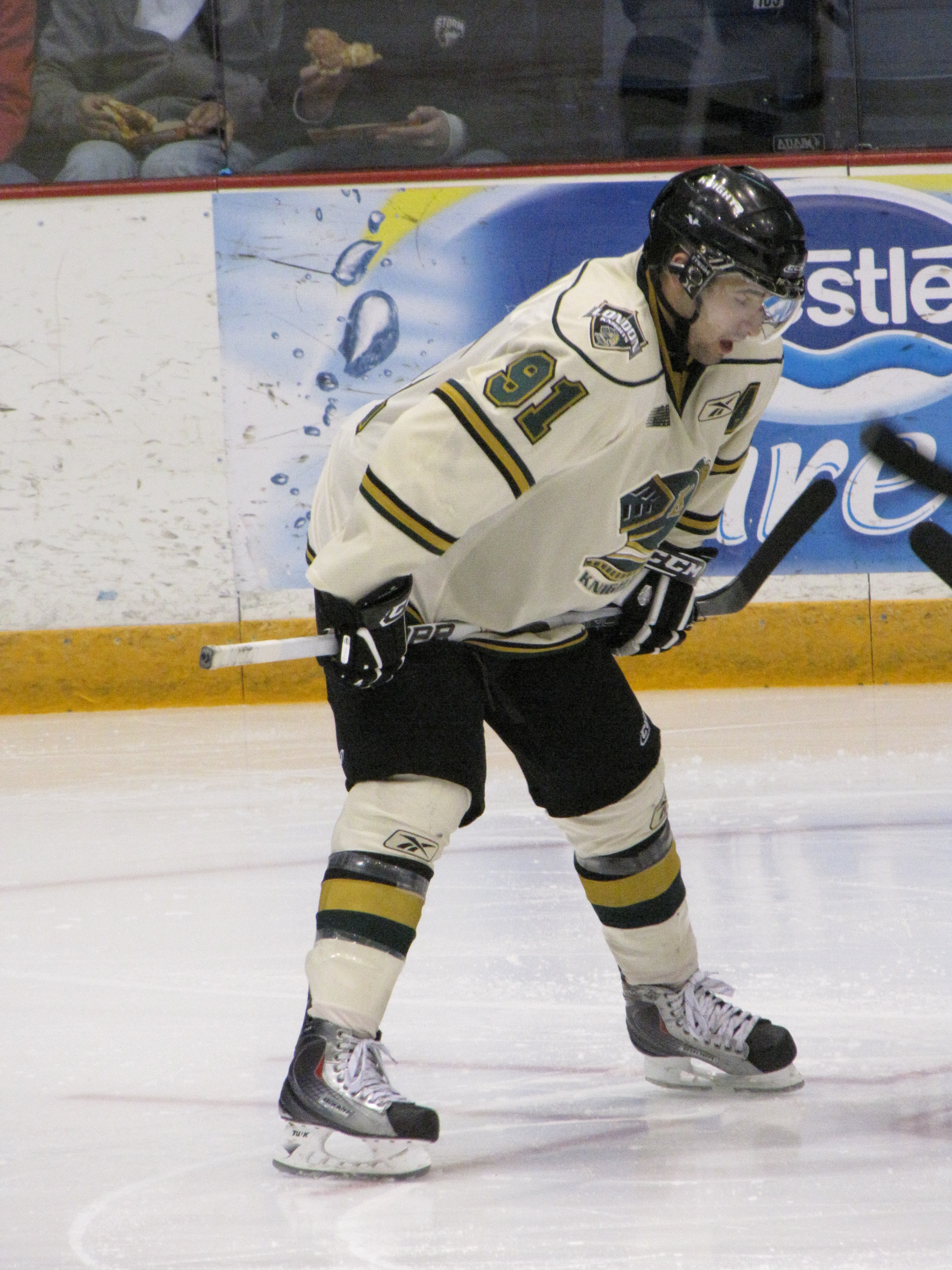 IMG_1173 London Knights vs. Guelph Storm Ontario Hockey League (OHL), March 25, 2010. Playoff action as the Storm host the London Knights. Not a good game from the Storm as they failed to concentrate during the game, and that sloppiness got them beat 8-2. Photo taken on March 25, 2010 by Tabercil using a Canon PowerShot SX10 IS. This photo also appears in Tabercil's Flickr set "2010-03-25 London Knights vs. Guelph Storm" (Set of 483).